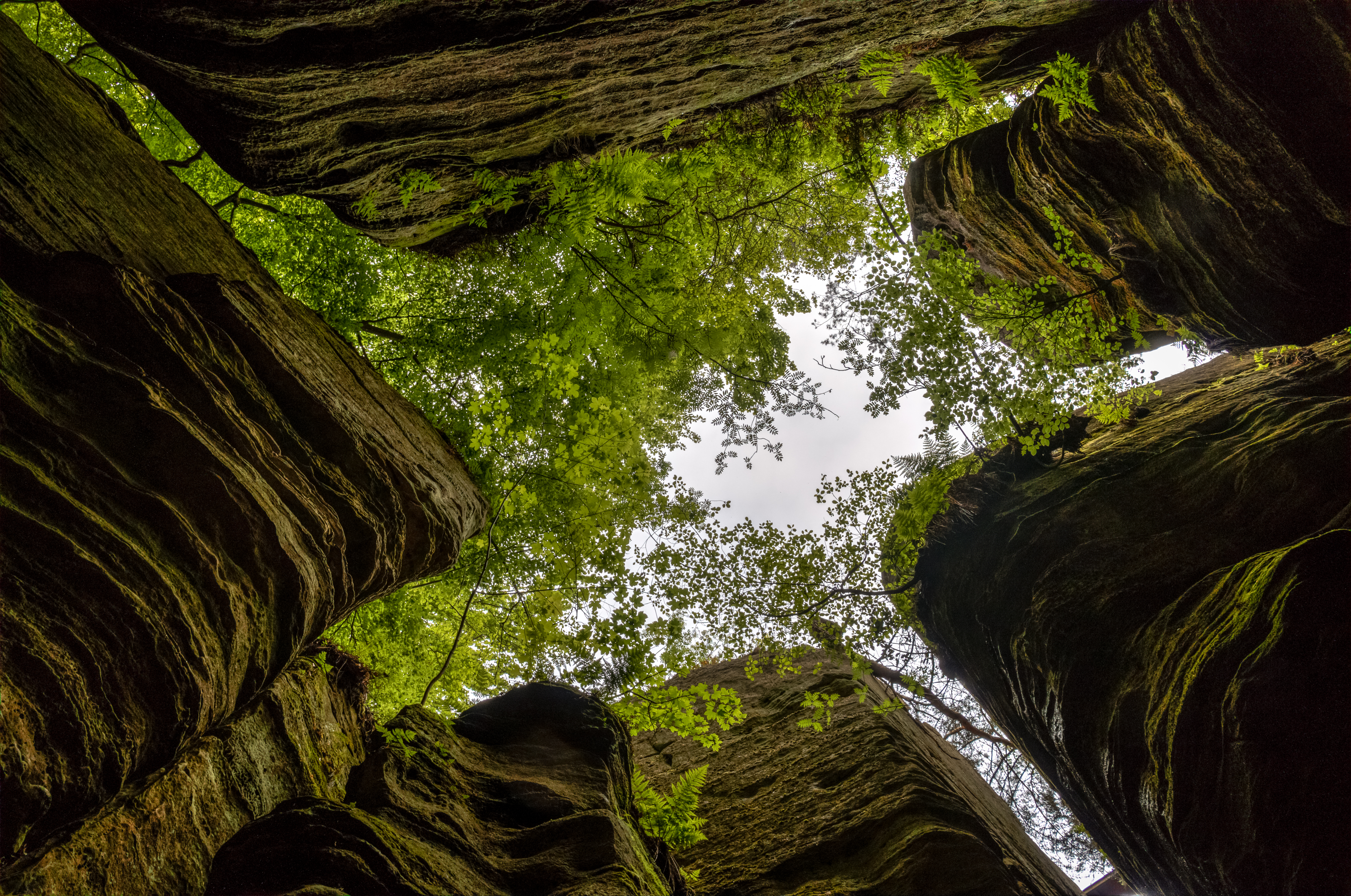 Labyrinth “Werschrummschloeff” in Berdorf, Luxembourg